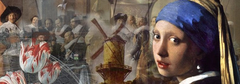 photomontage